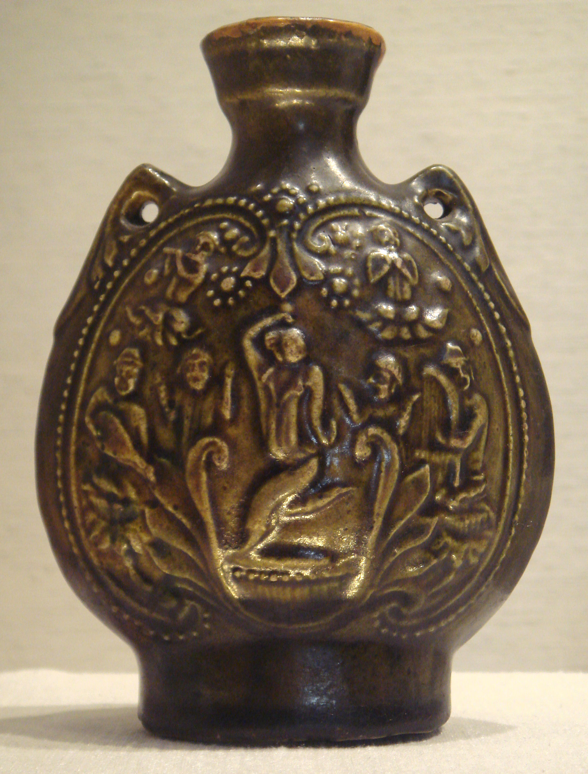 Northern_Qi_jar_with_olive_green_glaze_with_Central_Asian_dancer_and_musicians_550_577.